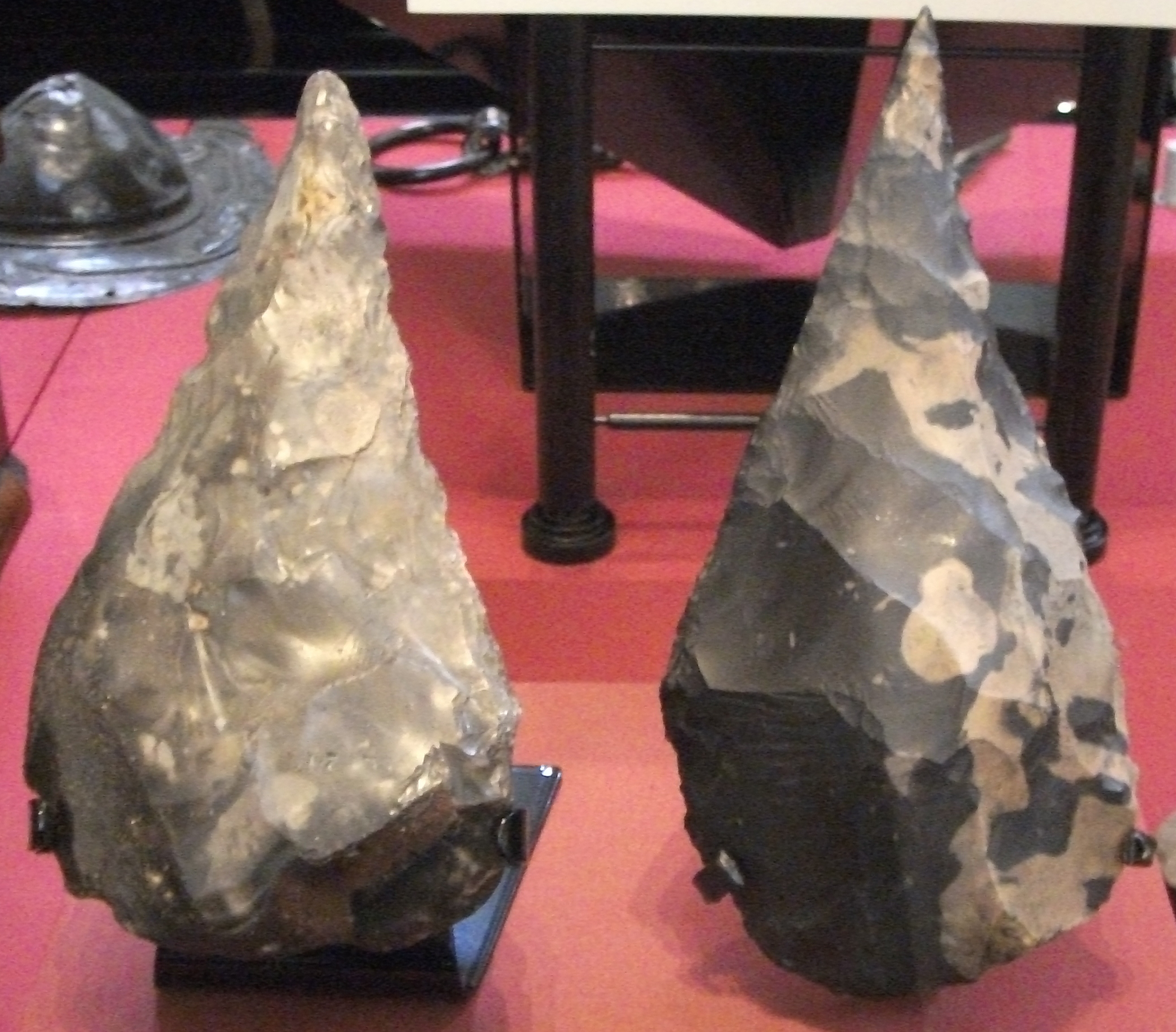 Hoxne & Grays Inn handaxes, [1] and [2]